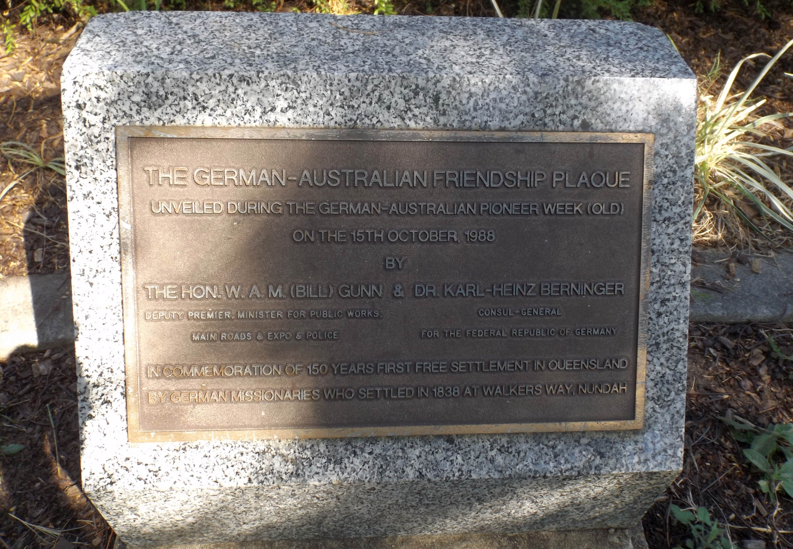 Photo of the plaque at the First Free Settlers Monument at Nundah, Brisbane, Queensland, Australia.